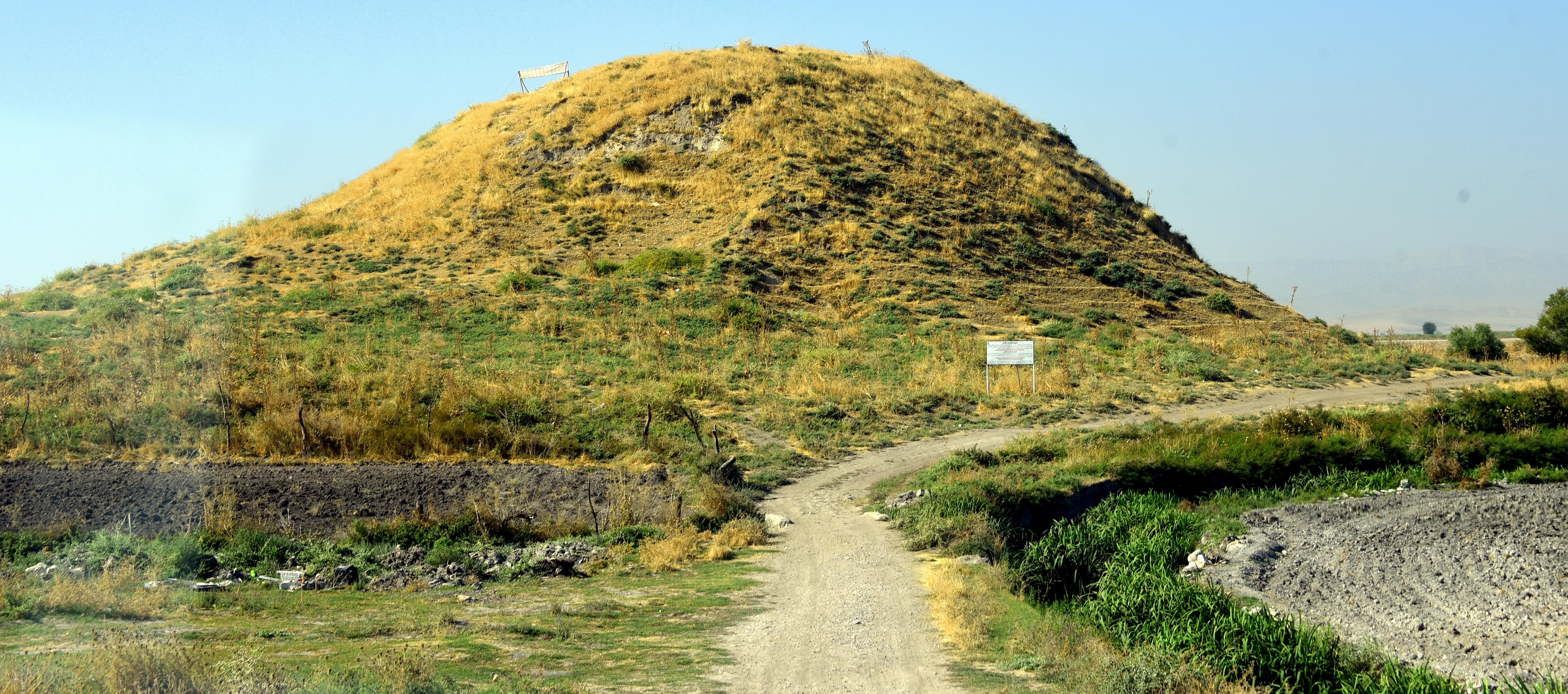 September 11, 2016. The ancient mound (4000-1000 BCE) of Gird-î Qalrakh (ِArabic: تل قلرخ), Shahrizor Plain, Sulaymaniyah Governorate, Iraq. The mound (or Tell) was first registered in 1943. Excavations started in 2015 and carried out by the University of Frankfort.